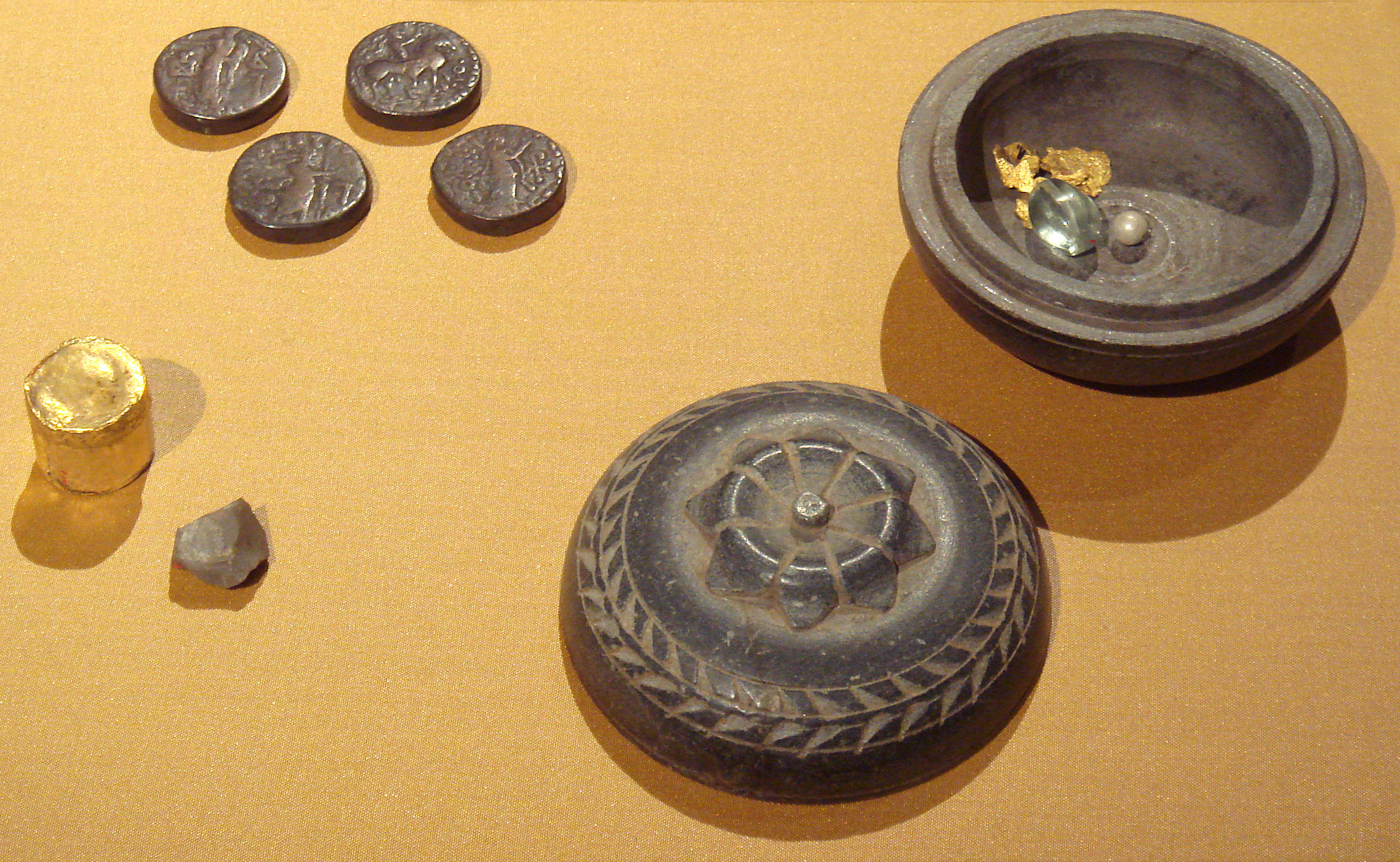 Buddhist Reliquary With Content, 1st Century CE. Coins detail